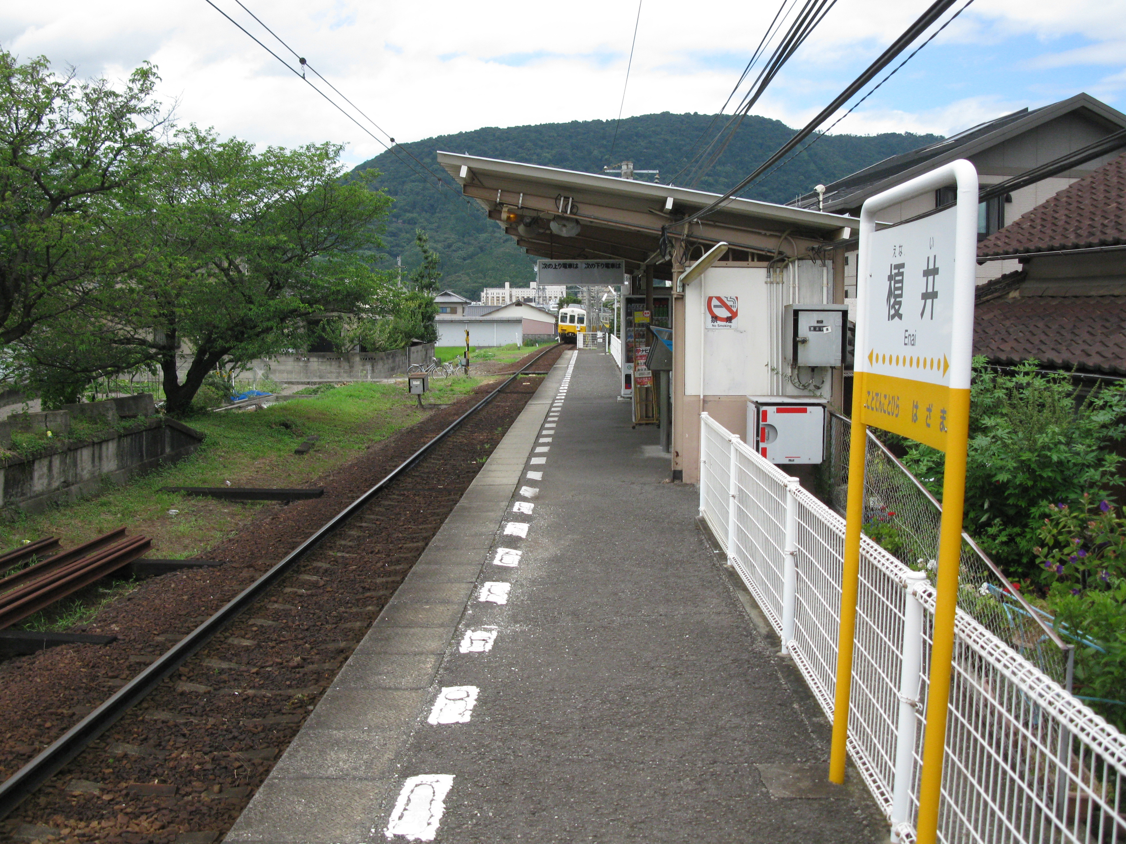 Enai Station platform (Takamatsu-Kotohira Electric Railroad(Kotoden) Kotohira Line)